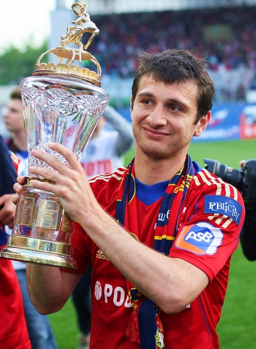 Alan Dzagoev 2014